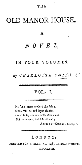 Smith, Charlotte Turner. The old manor house. Vol. 1. London: Printed for J. Bell, 1793.